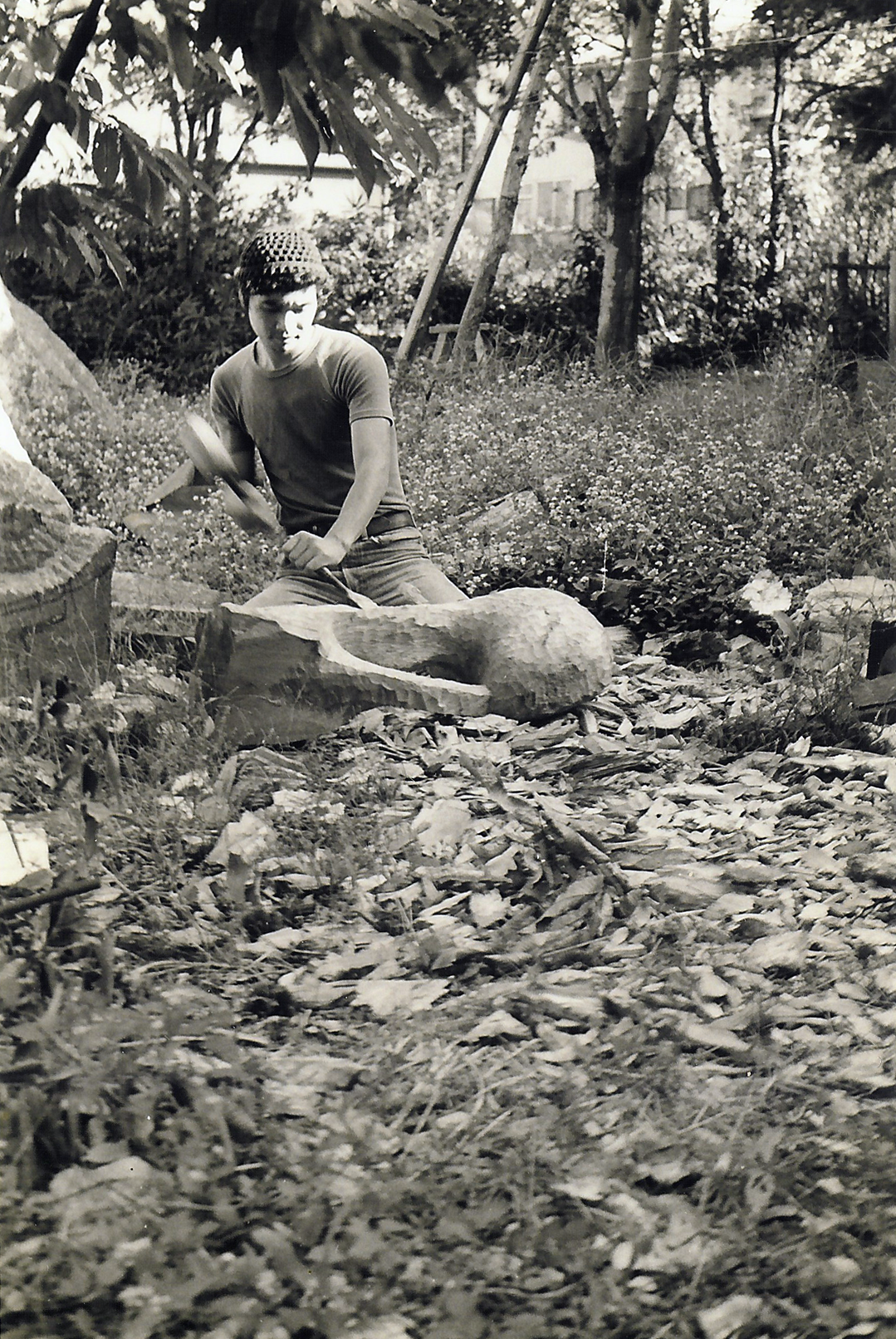 Tetsuo Harada studied at Tamabi Tokyo Fine Art University, Section sculputre. He is carving a wood sculpture DECLARATION FOR LOOK 1972